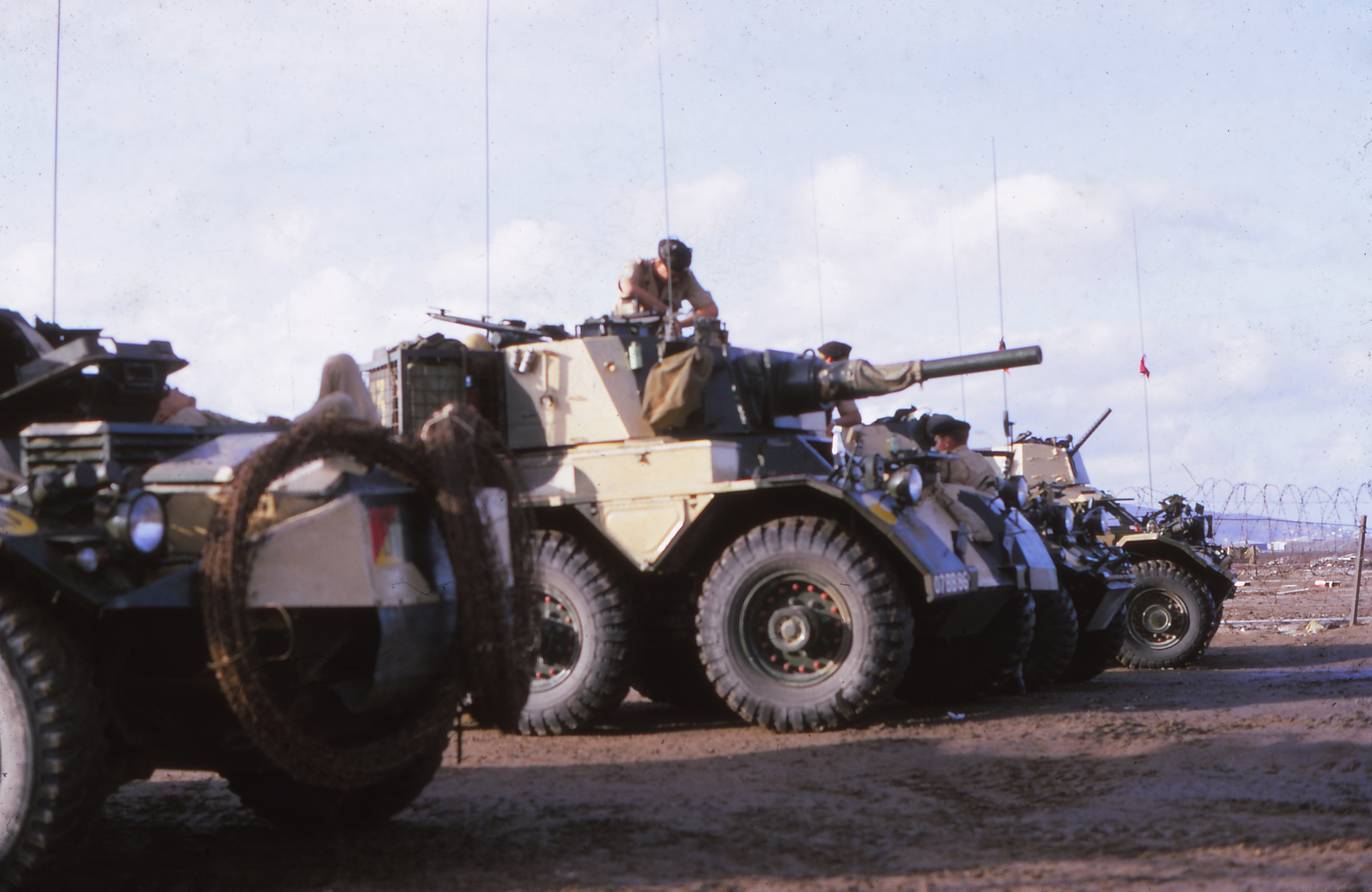 Checkpoint Bravo and 3 Troop, A Squadron, Queen's Dragoon Guards, in support of us [3 Royal Anglian] . Early morning after being 'on stand-by and on-call' since the previous afternoon. Everyone was a little weary. What are the vehicles? see notes.